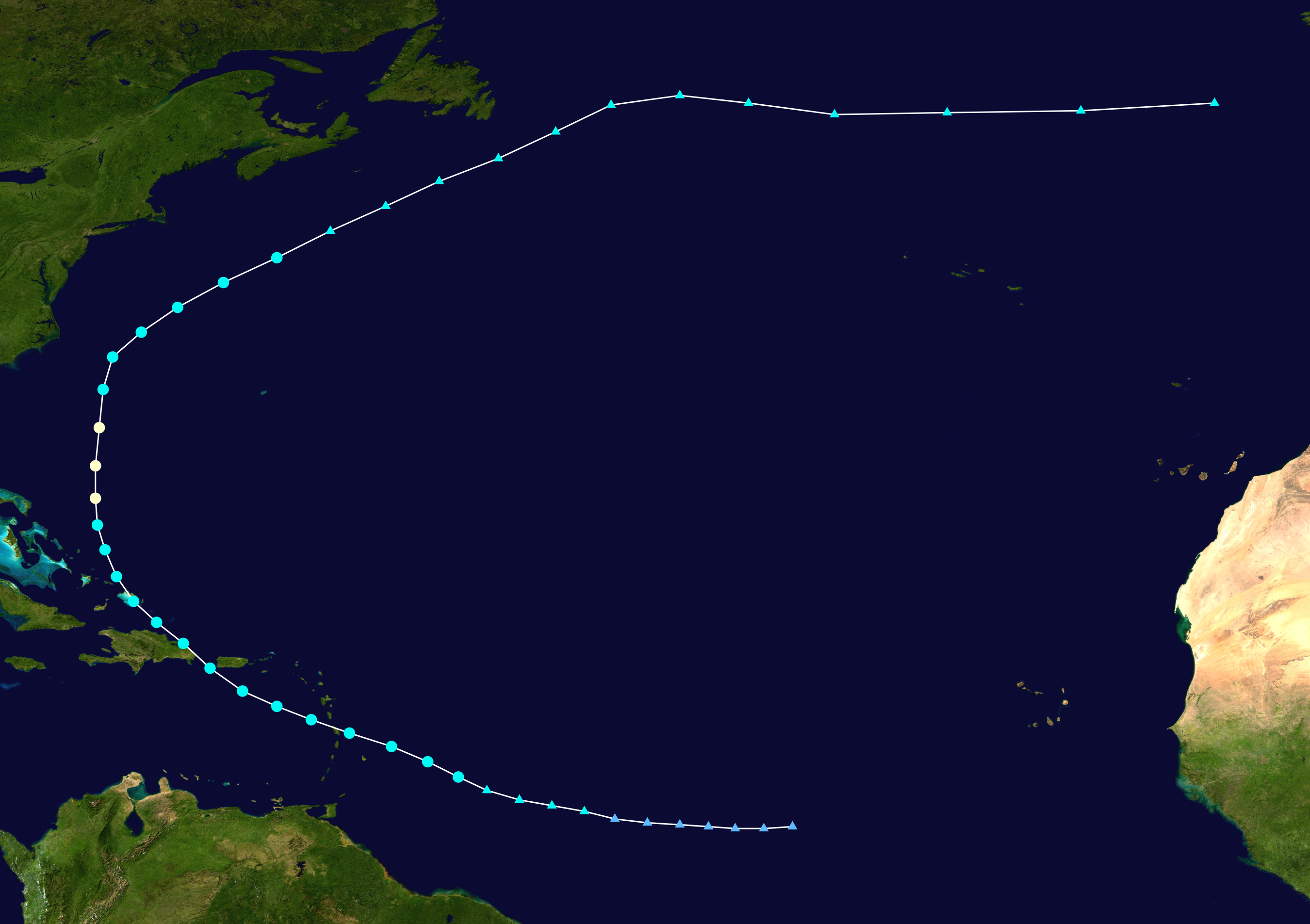 Track map of Hurricane Bertha of the 2014 Atlantic hurricane season. The points show the location of the storm at 6-hour intervals. The colour represents the storm's maximum sustained wind speeds as classified in the Saffir–Simpson scale (see below), and the shape of the data points represent the nature of the storm, according to the legend below. Saffir–Simpson scale Tropical depression≤38 mph≤62 km/h Category 3111–129 mph178–208 km/h Tropical storm39–73 mph63–118 km/h Category 4130–156 mph209–251 km/h Category 174–95 mph119–153 km/h Category 5≥157 mph≥252 km/h Category 296–110 mph154–177 km/h Unknown Storm type Tropical cyclone Subtropical cyclone Extratropical cyclone / Remnant low / Tropical disturbance / Monsoon depression